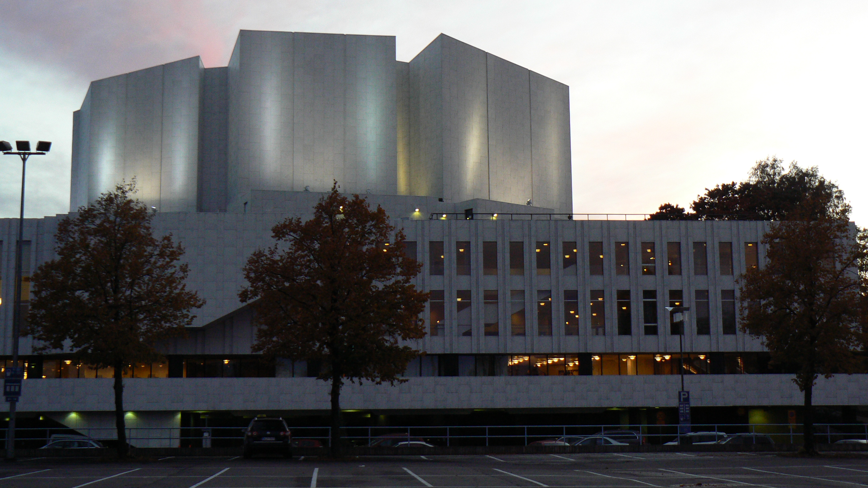 The lighting of the hall are supposed to resemble the northern lights.